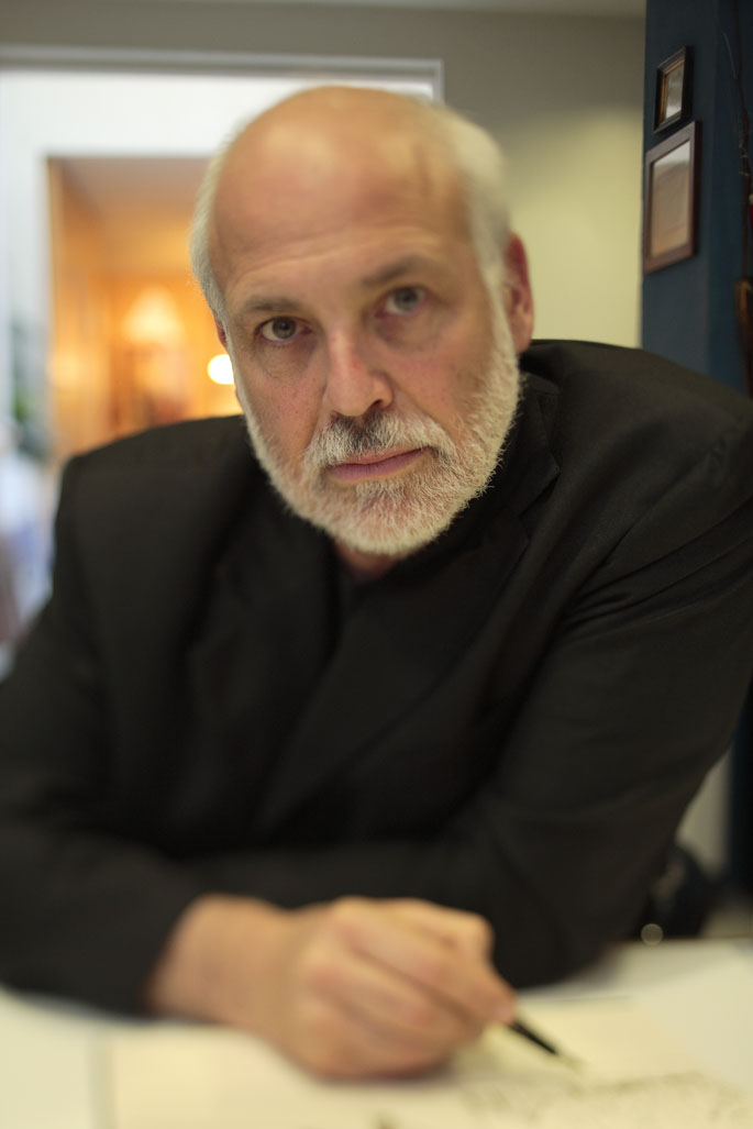 Picture of the architect and designer David Palterer